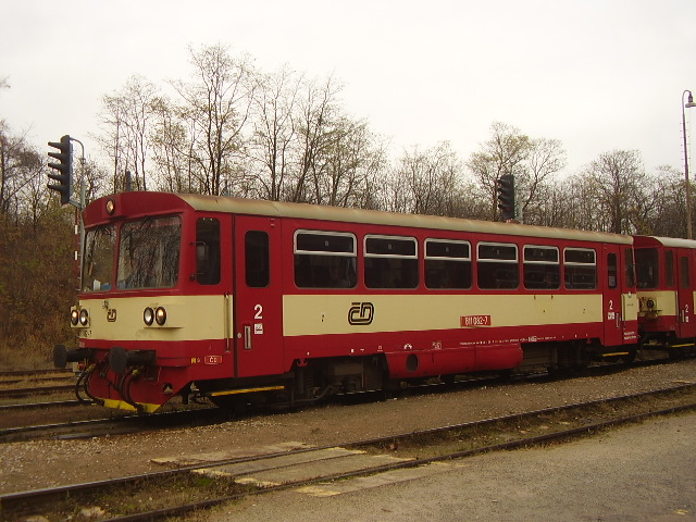 Diesel unit ČD class 811, Hostivice